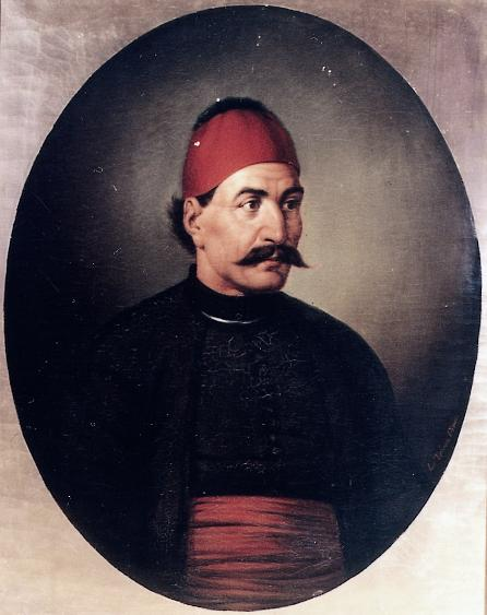 iakovos tobazis